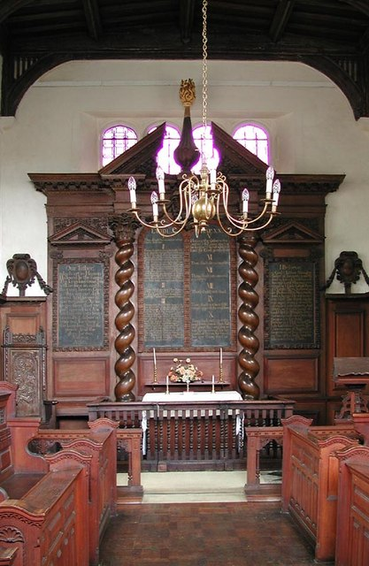 Oxhey Chapel, Herts - East end